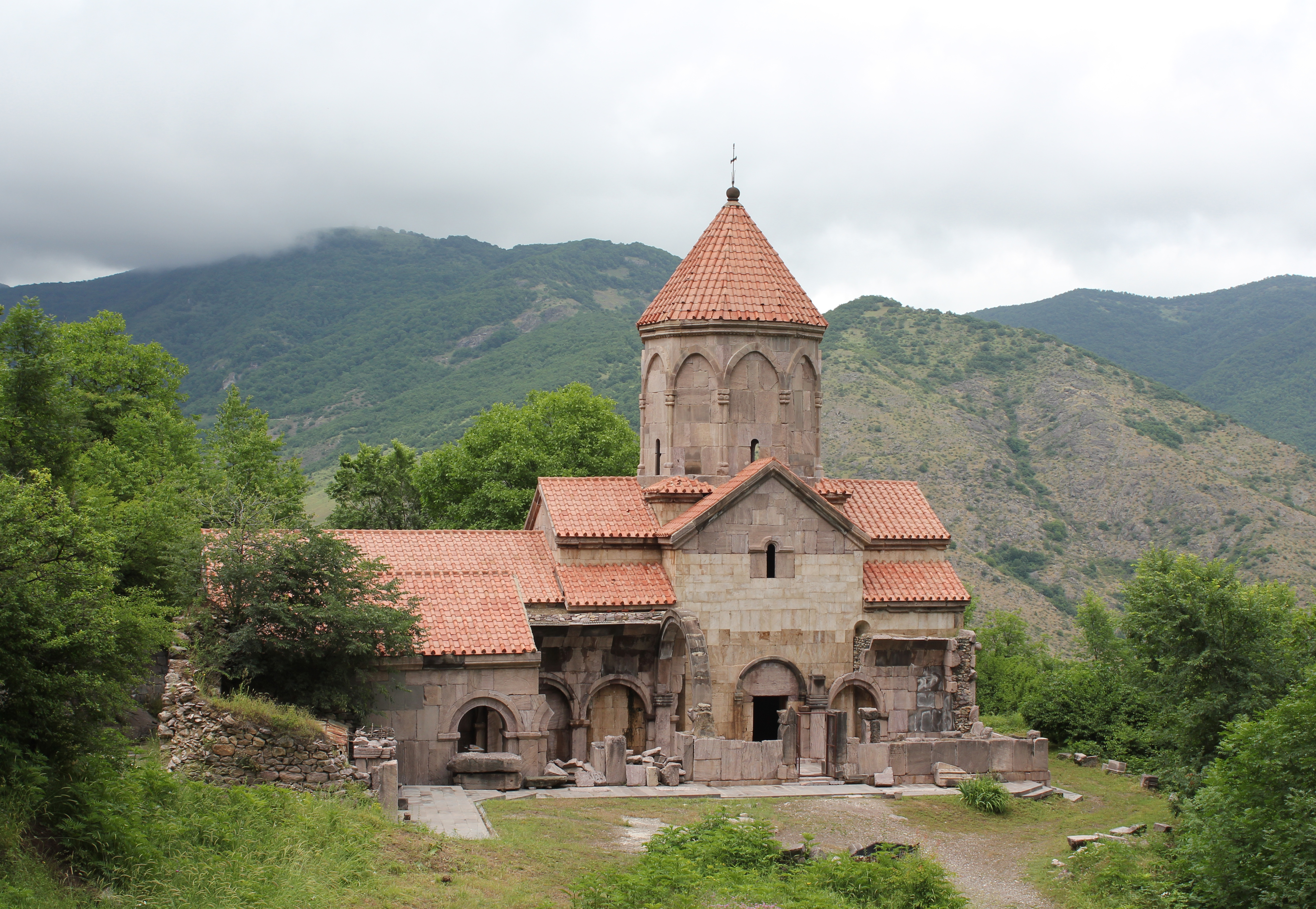 Vahanavank Vahanavank is a 10th-11th century Armenian monastic complex located approximately 5 kilometers west of the town of Kapan in the Syunik Province of Armenia, situated at the foot of Tigranasar mountain along the right bank of the Voghdji River. The monastery was built over a Bronze Age grave field (13.-11. BCE) by Prince Vahan Nakhashinogh, of which it gets its namesake, the son of Prince Gagik of Kapan, in the early 10th century. The Armenian historian Stepanos Orbelian (c. 1250 – 1305) wrote that the prince had taken on a monk's robe and lifestyle to cure himself of demonic possession. In the year 911, Prince Vahan gathered 100 like-minded clerics and built the church of Surb Grigor Lusavorich (St. Gregory the Illuminator). It is the oldest among the structures at Vahanavank. The church is a domed hall like building with a main temple and a pair of sacristies. The drum rises on huge steeple rocks. The church has a west and south entrance. The portico stretches to the south of the church and the narthex. Kings and princes of Syunik are buried here. Prince Vahan was buried near the door to the church. (source